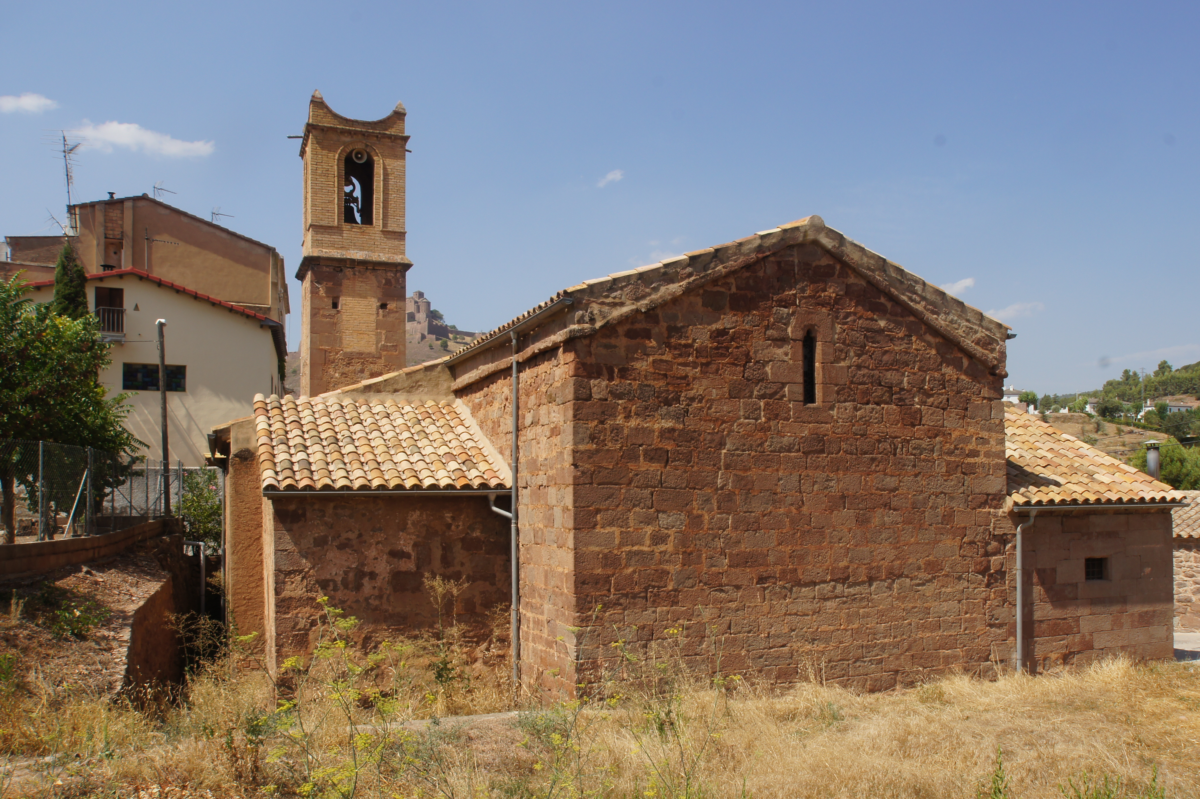 Cardona (La Coromina), Catalonia: Saint Ramon's Church